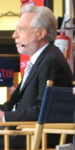 CNN Anchor/Reporter Wolf BlitzerWolf Blitzer: Too Short for TV